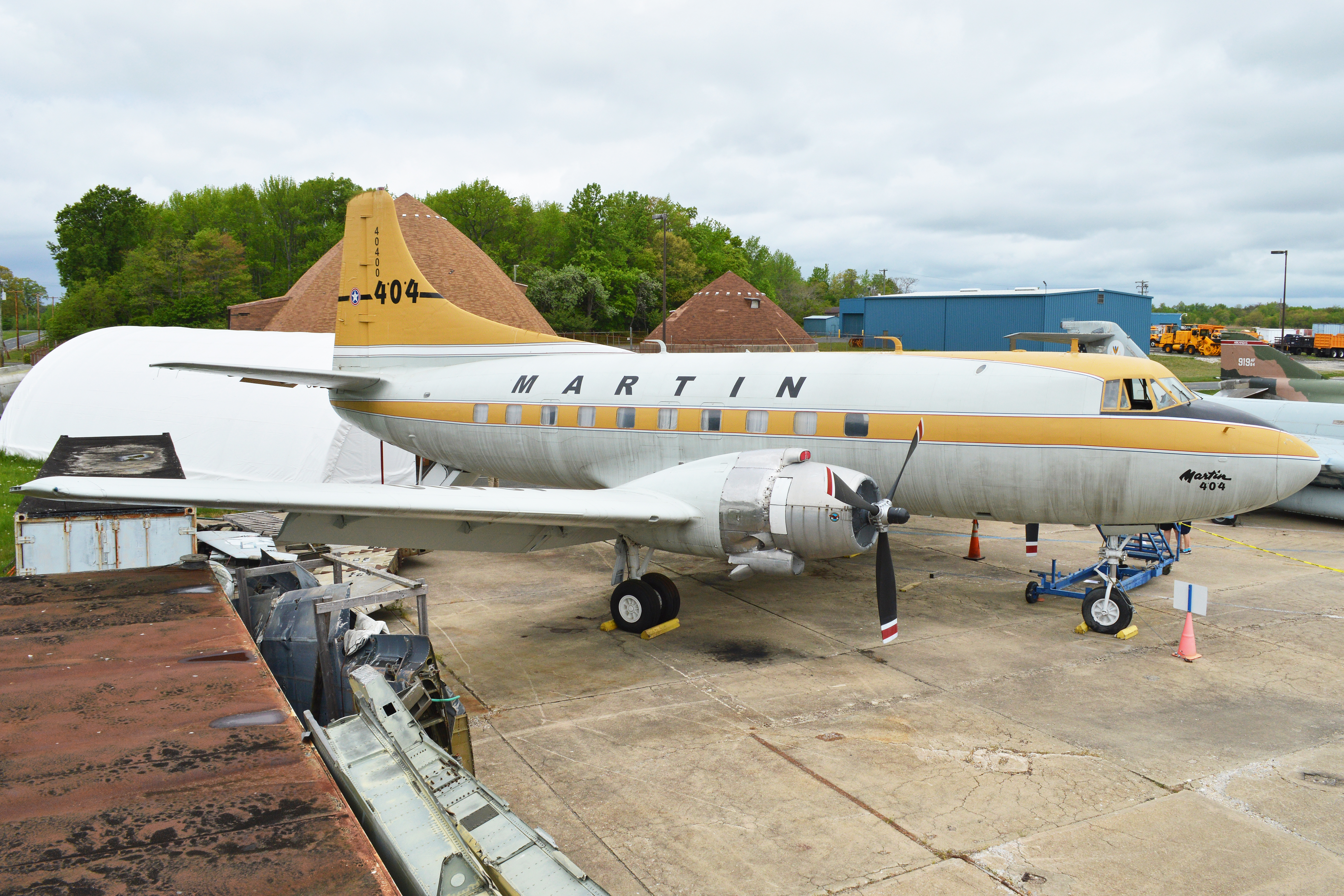 c/n 14233. Built in 1952 as N485A for Eastern Airlines, it became N259S with Southern Airways in 1964. It flew with them until 1976, after which it had several different operators. It’s last flight was in May 2000. It is now on display with the Maryland Aviation Museum as part of the Strawberry Point Flightline and is painted to represent the prototype Martin 4-0-4 ‘N40400’ which was actually a converted Martin 2-0-2. Martin State Airport, Maryland, USA.